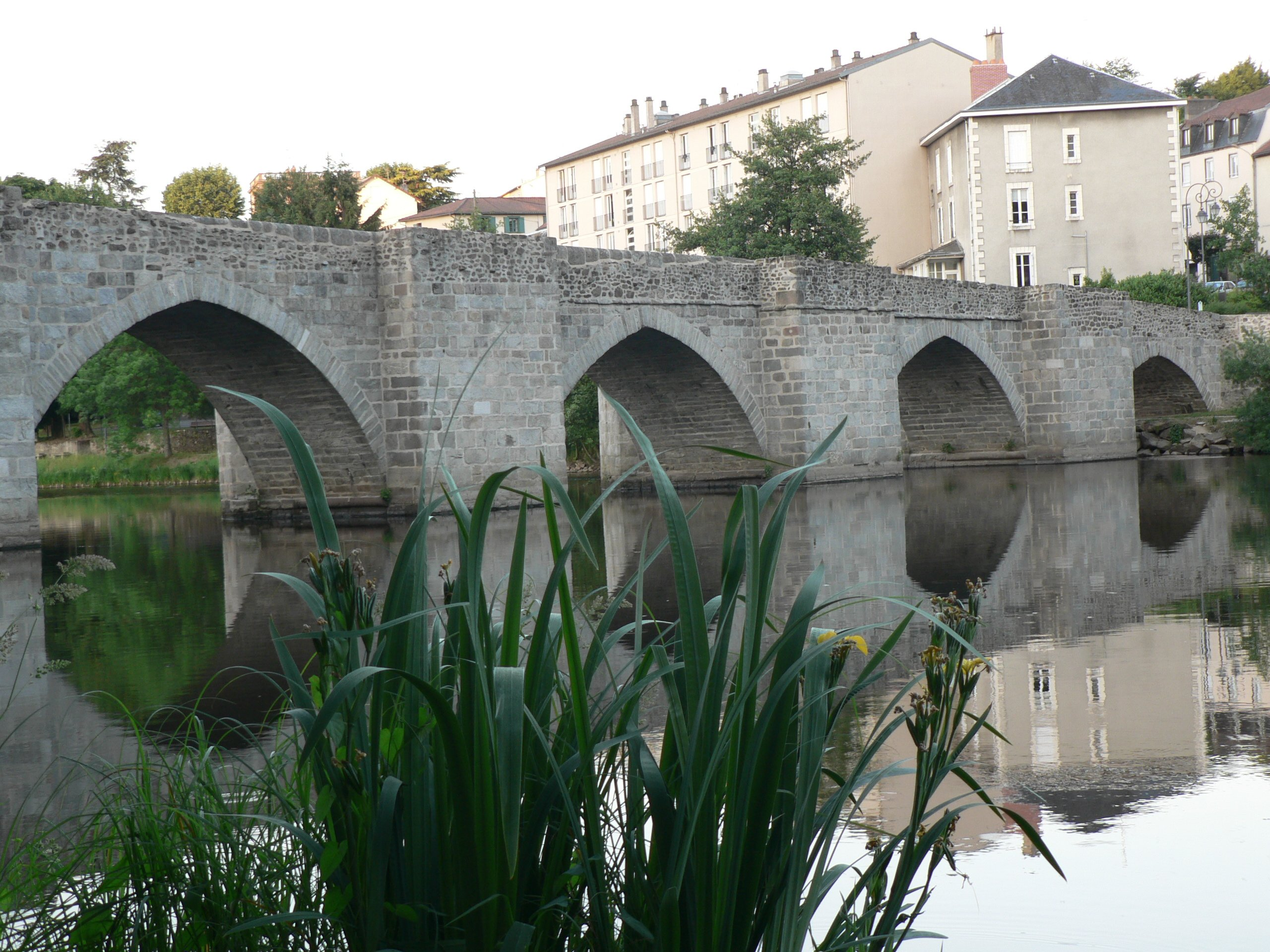 Holy Étienne's Bridge, Limoges, France